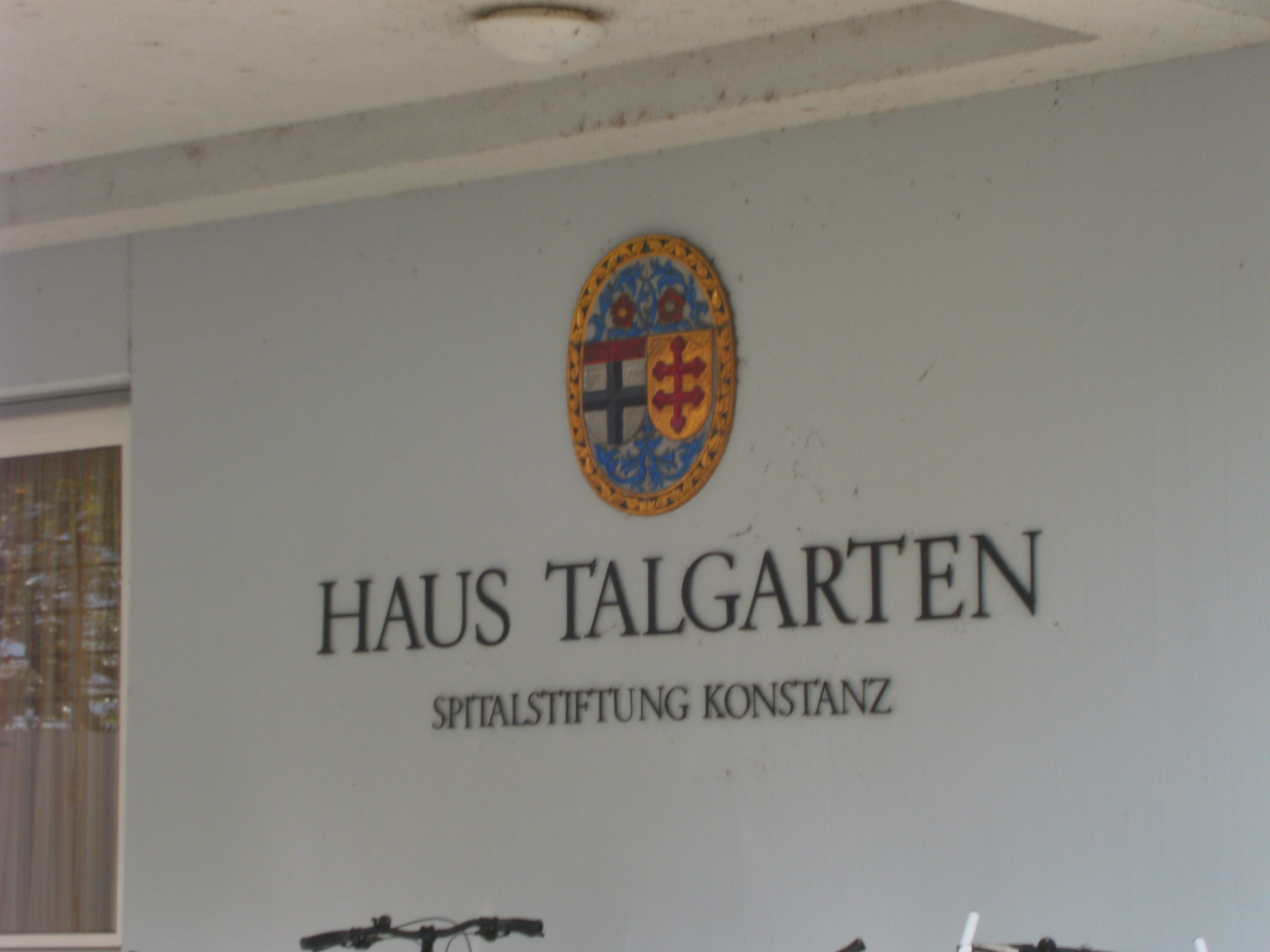 Konstanz, Germany: Spitalstiftung Konstanz, Haus Talgarten.